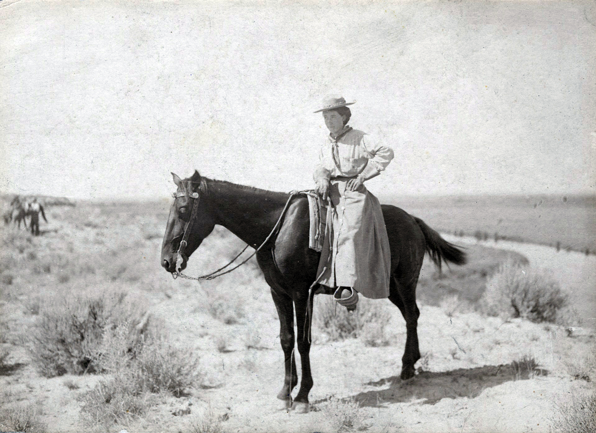 Probably Minerva Teichert riding a horse.